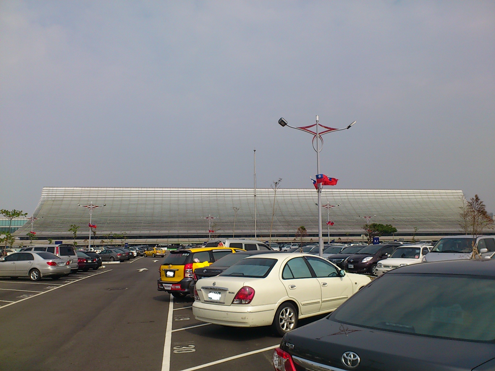 Terminal 1 of Taiwan Taoyuan International Airport (after renovation)